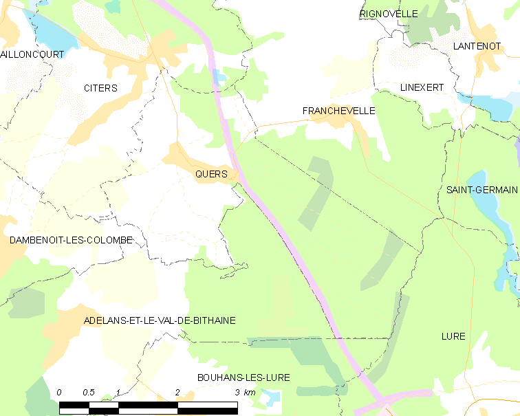 Map of French municipality